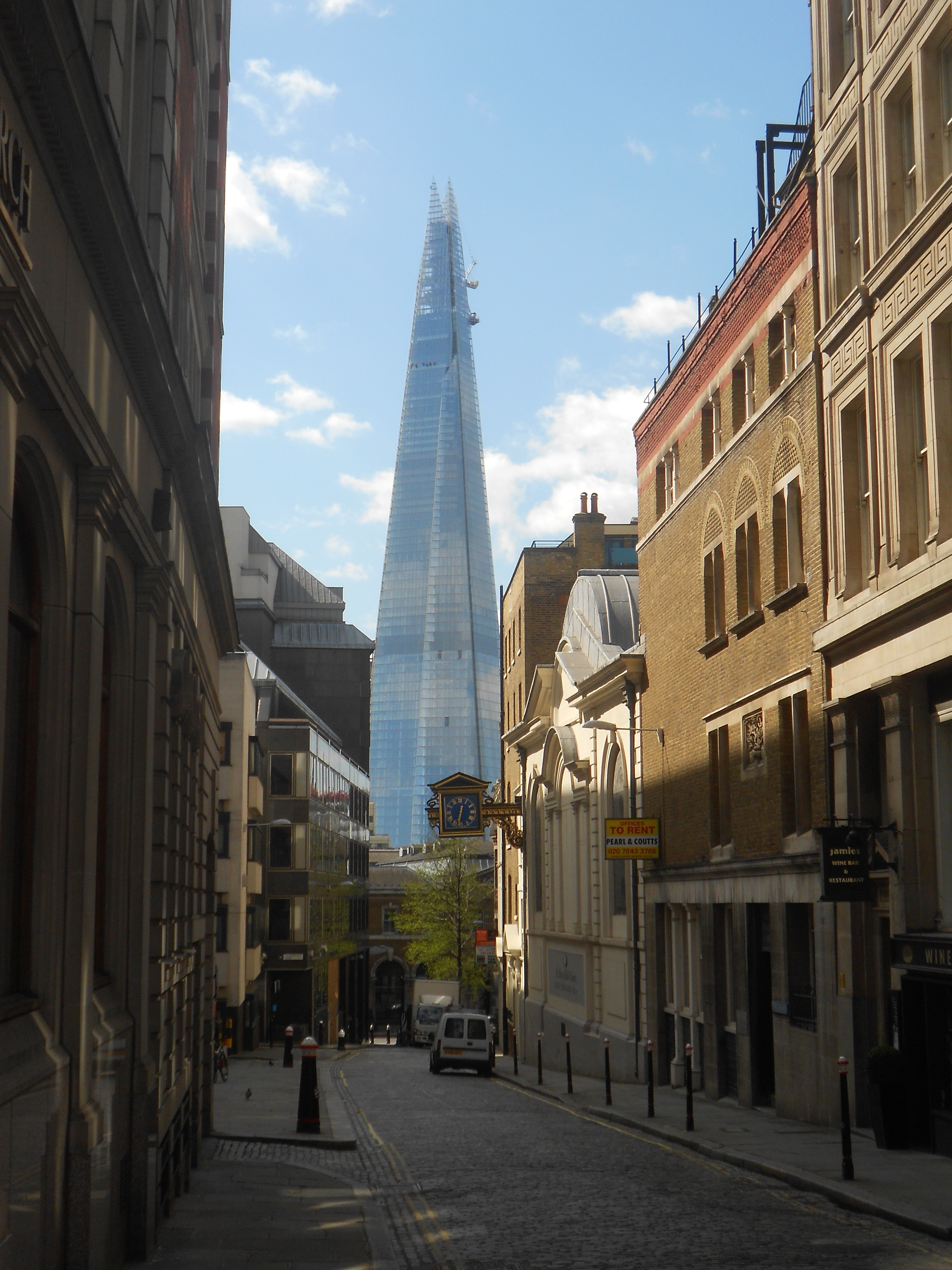 The Shard, pictured from Great Tower Street at St. Mary at Hill.